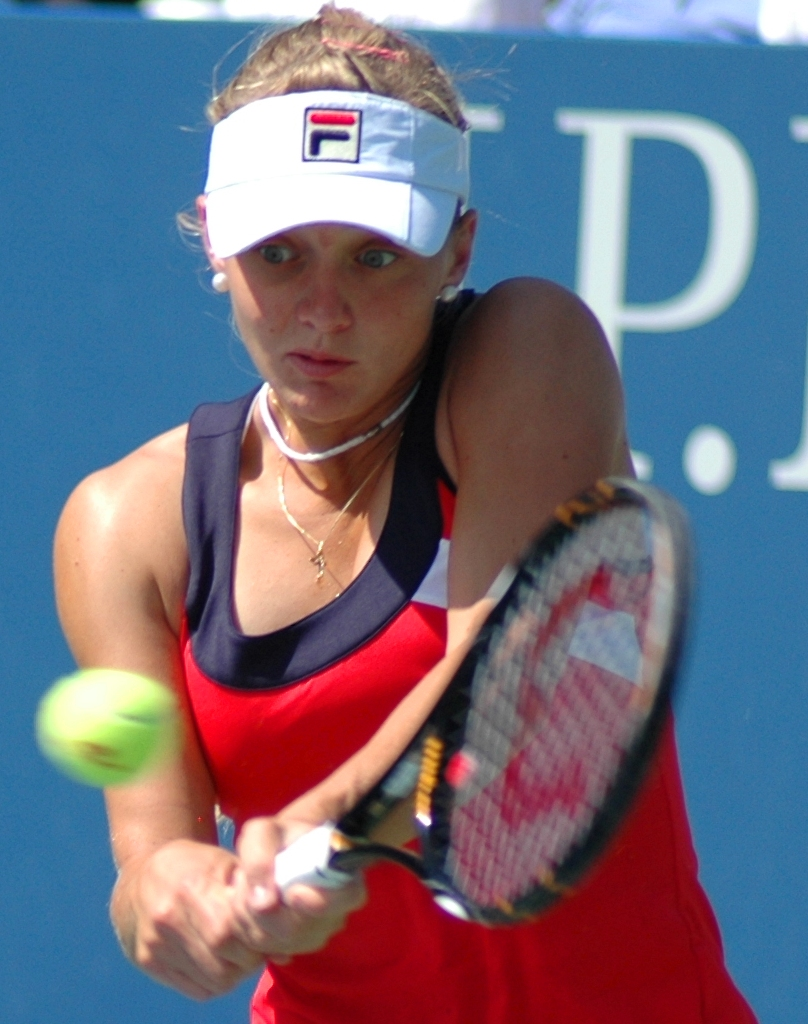 Anna Chakvetadze at the 2009 US Open